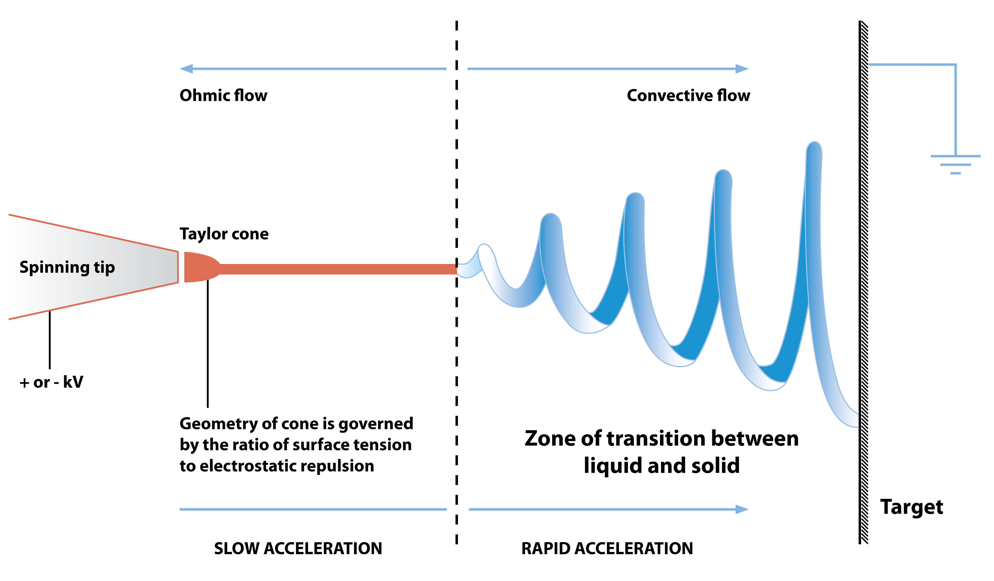 A diagram of the electrospinning process showing the onset of instability